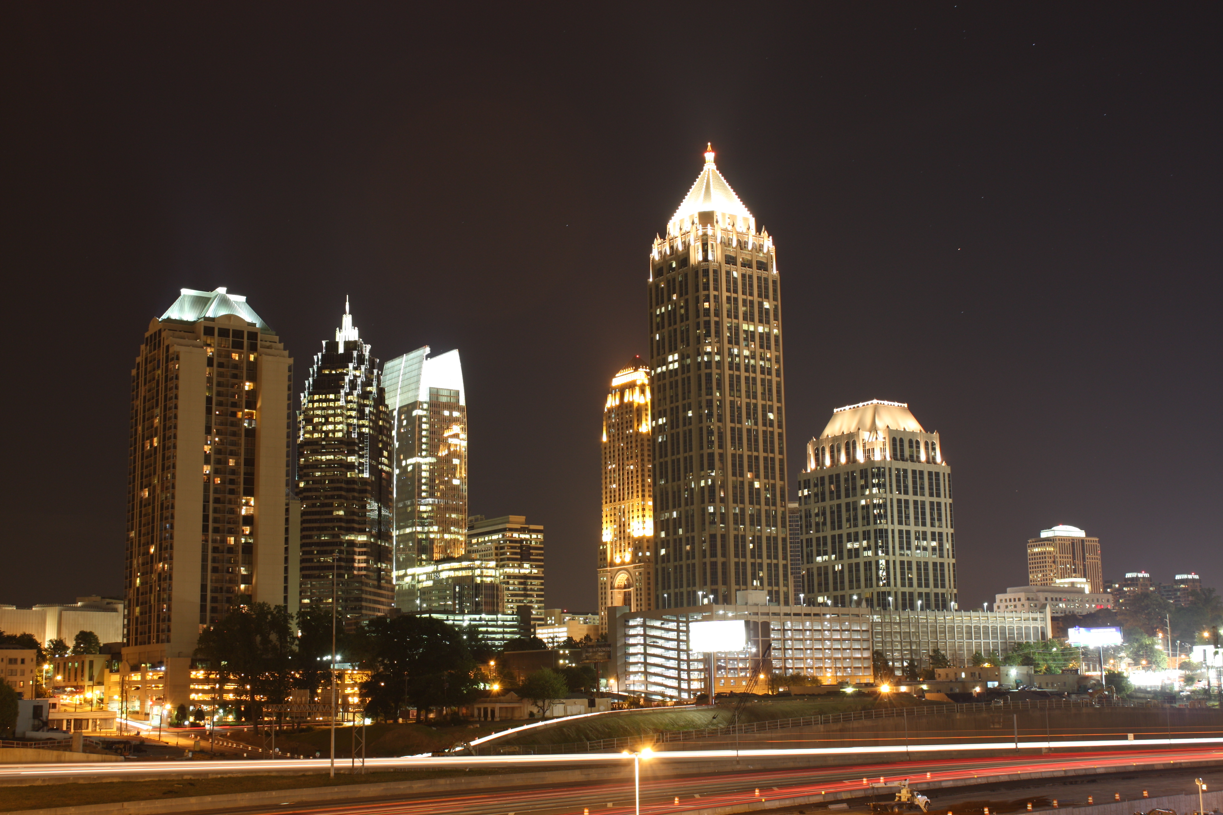 Midtown Atlanta at Night, May 08